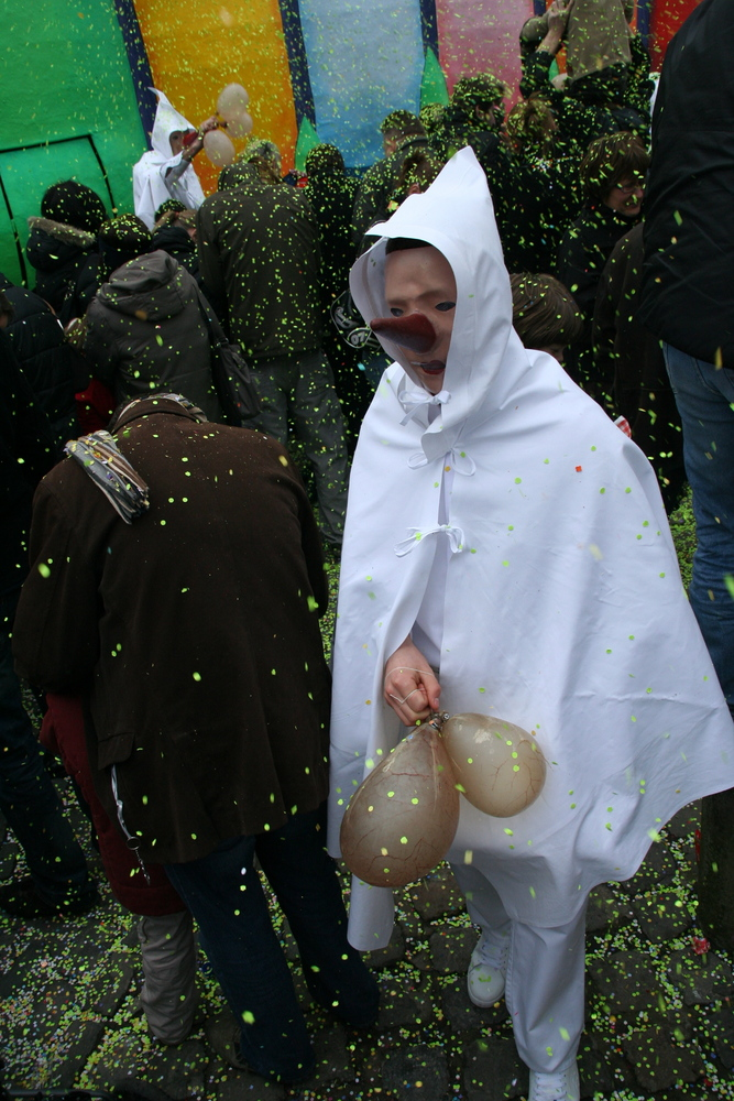 Blanc-Moussis holding pig bladders durring the Stavelot Carnival